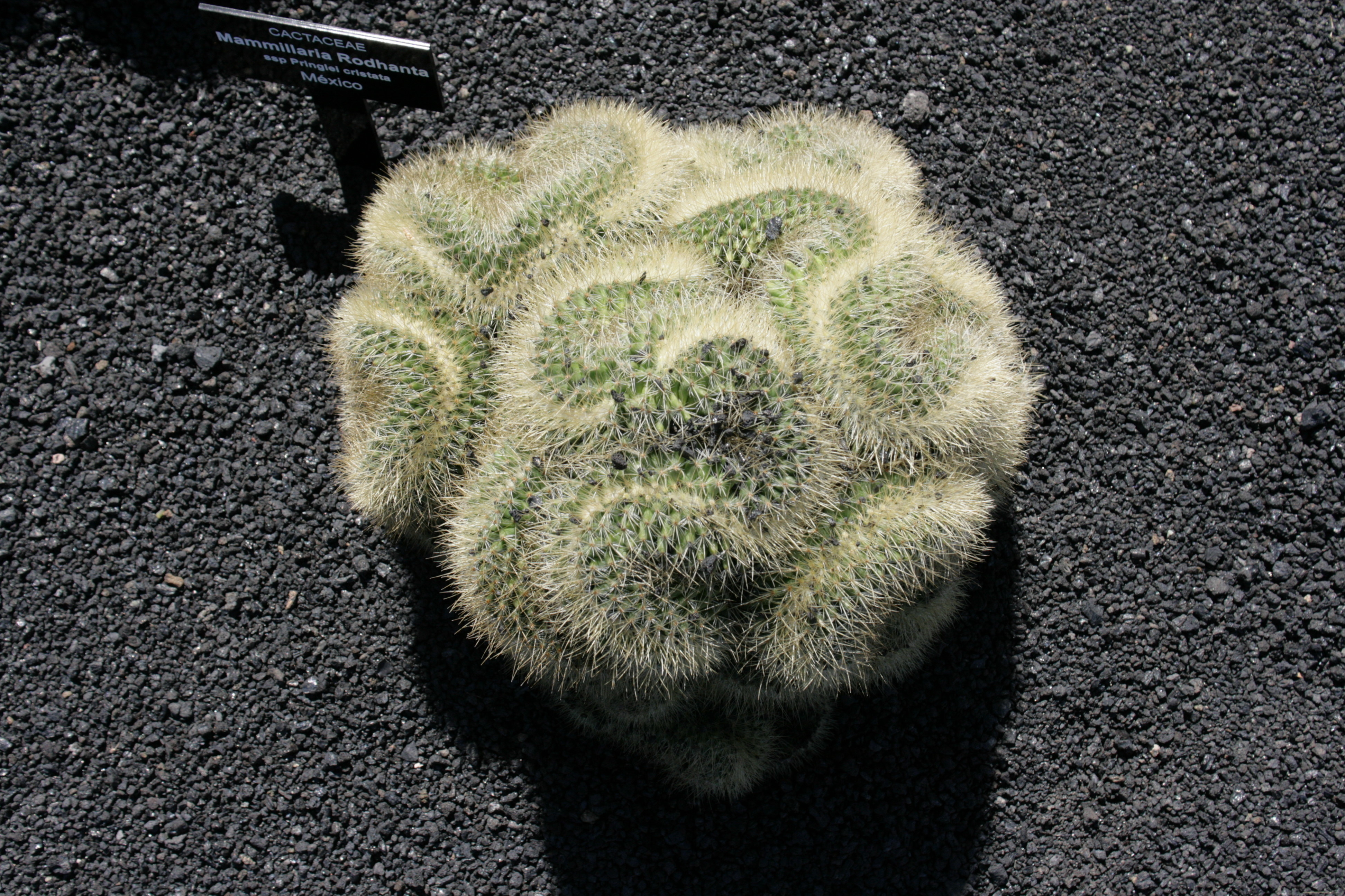 Mammillaria rhodantha crest grown in the Botanical Garden “Jardin de Cactus” in Guatiza, Teguise, Lanzarote, Canary Islands